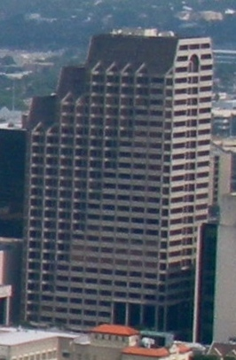 Bank of America Plaza from Tower of the Americas